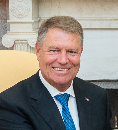 President Donald J. Trump welcomes Romanian President Klaus Iohannis Tuesday, Aug. 20, 2019, to the Oval Office of the White House. (Official White House Photo by Shealah Craighead)